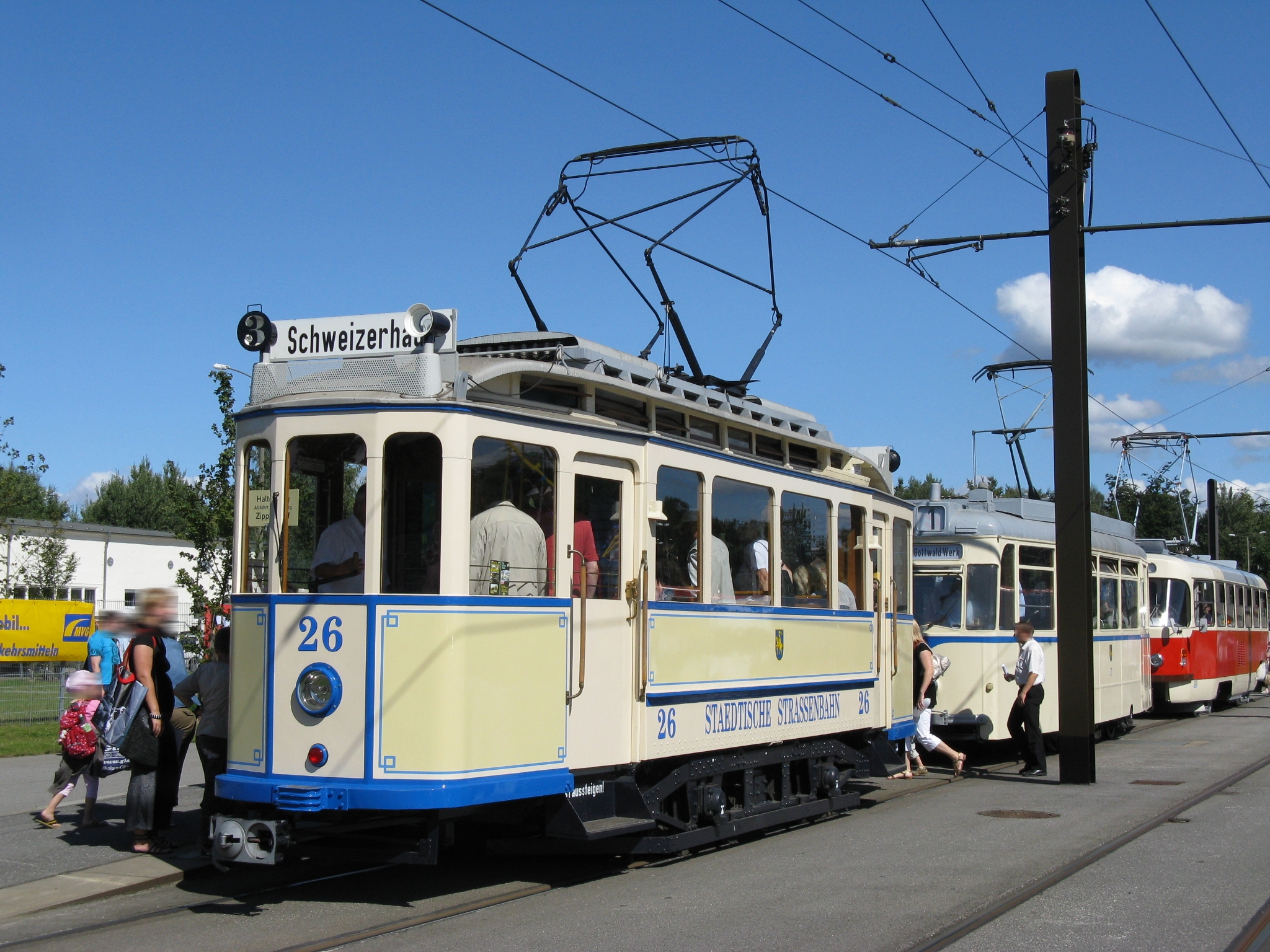 Public transport Schwerin, Depot Haselholz, Schwerin, Germany historical trams (type Wismar, Gotha, Tatra)